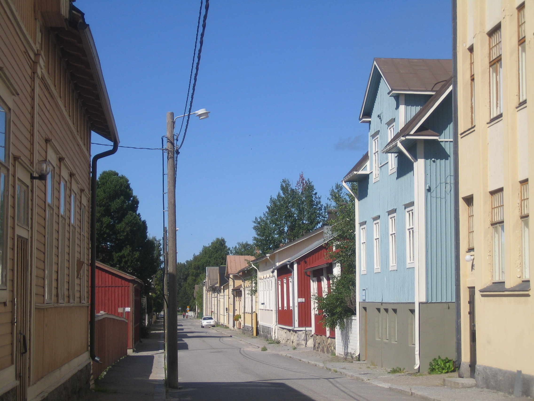 Old houses in Norrmalm (Skata), Jakobstad, Finland.